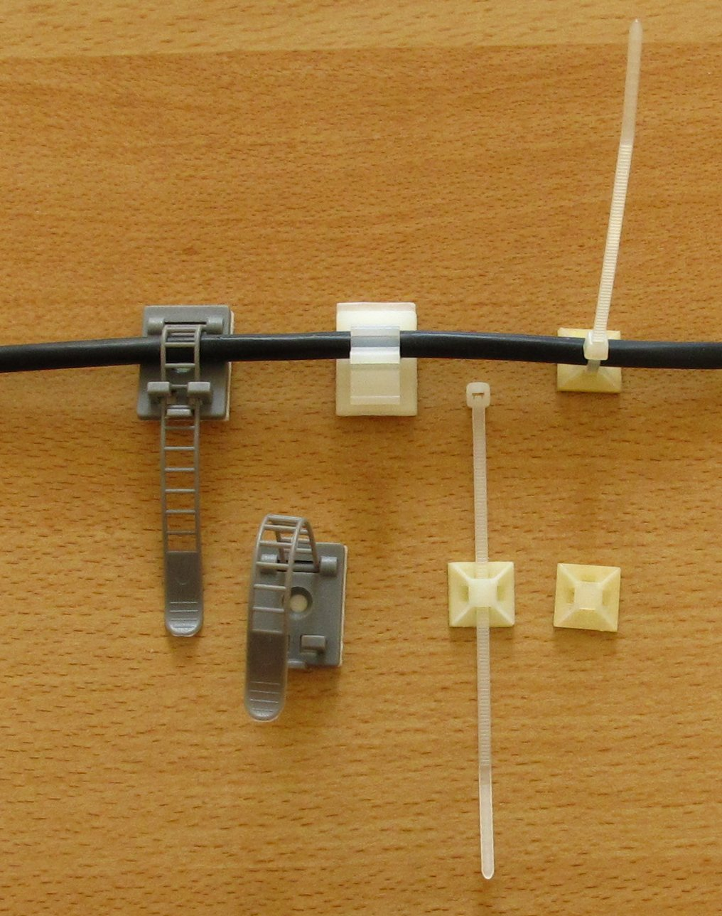 Different types of self-adhesive cable ties